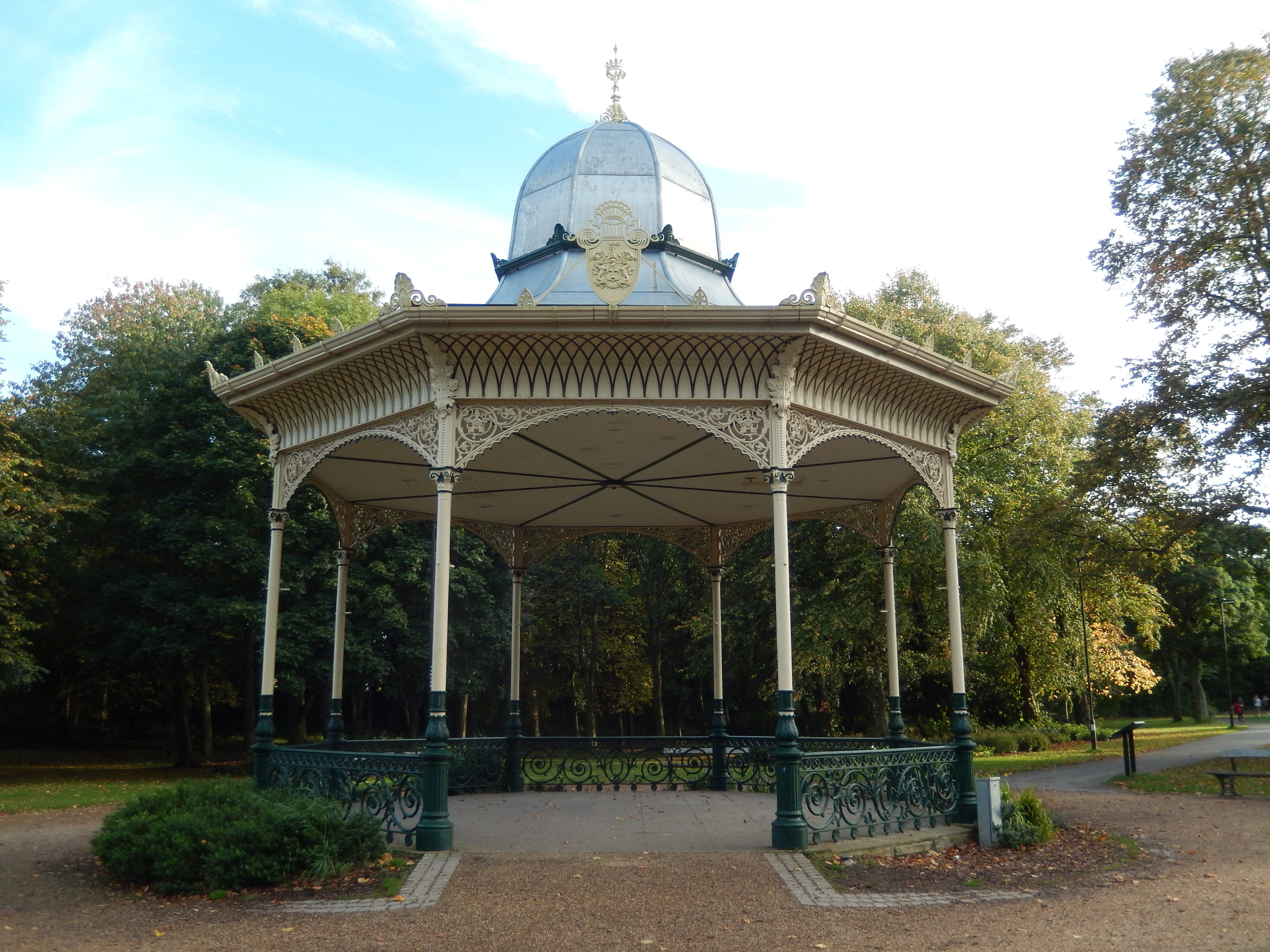 Bandstand In Exhibition Park Wikidata has entry Q26275755 with data related to this item.